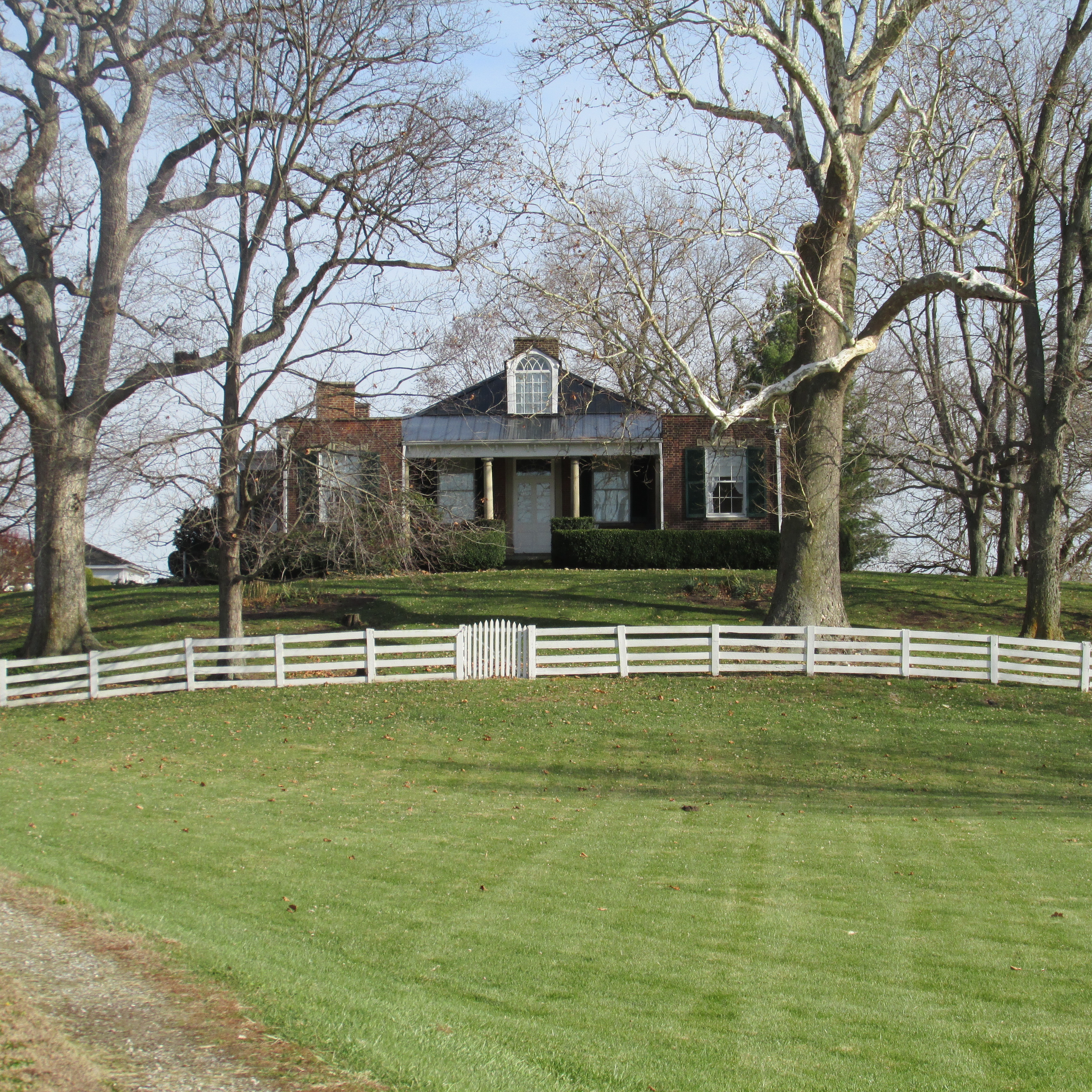 Mount Oval located in Pickaway County, Ohio.